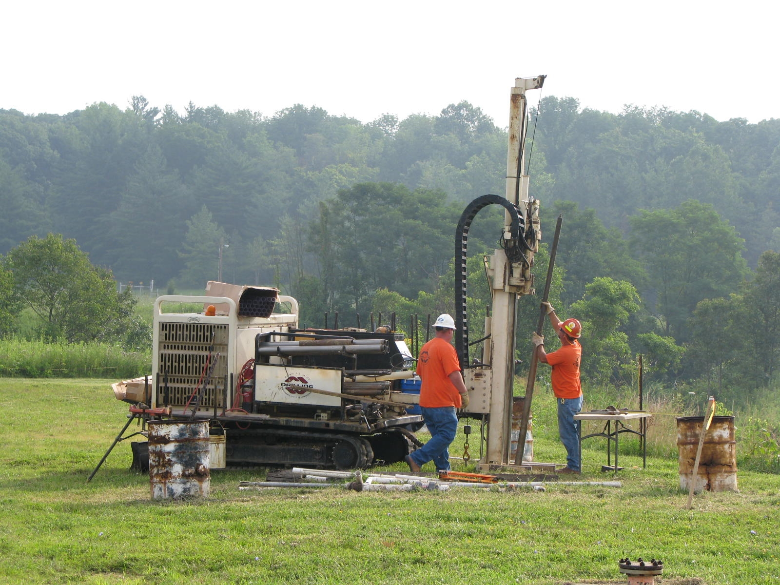 TCE Source Removal (soil samples)